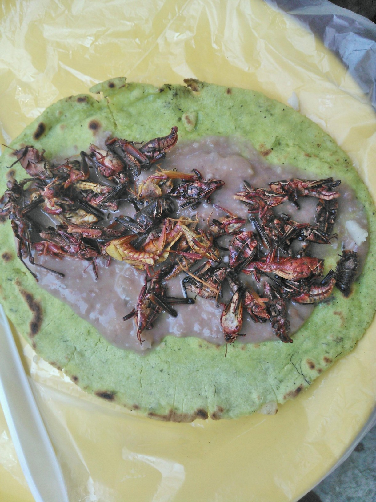 Crickets with fried beans on a nopal tortilla.